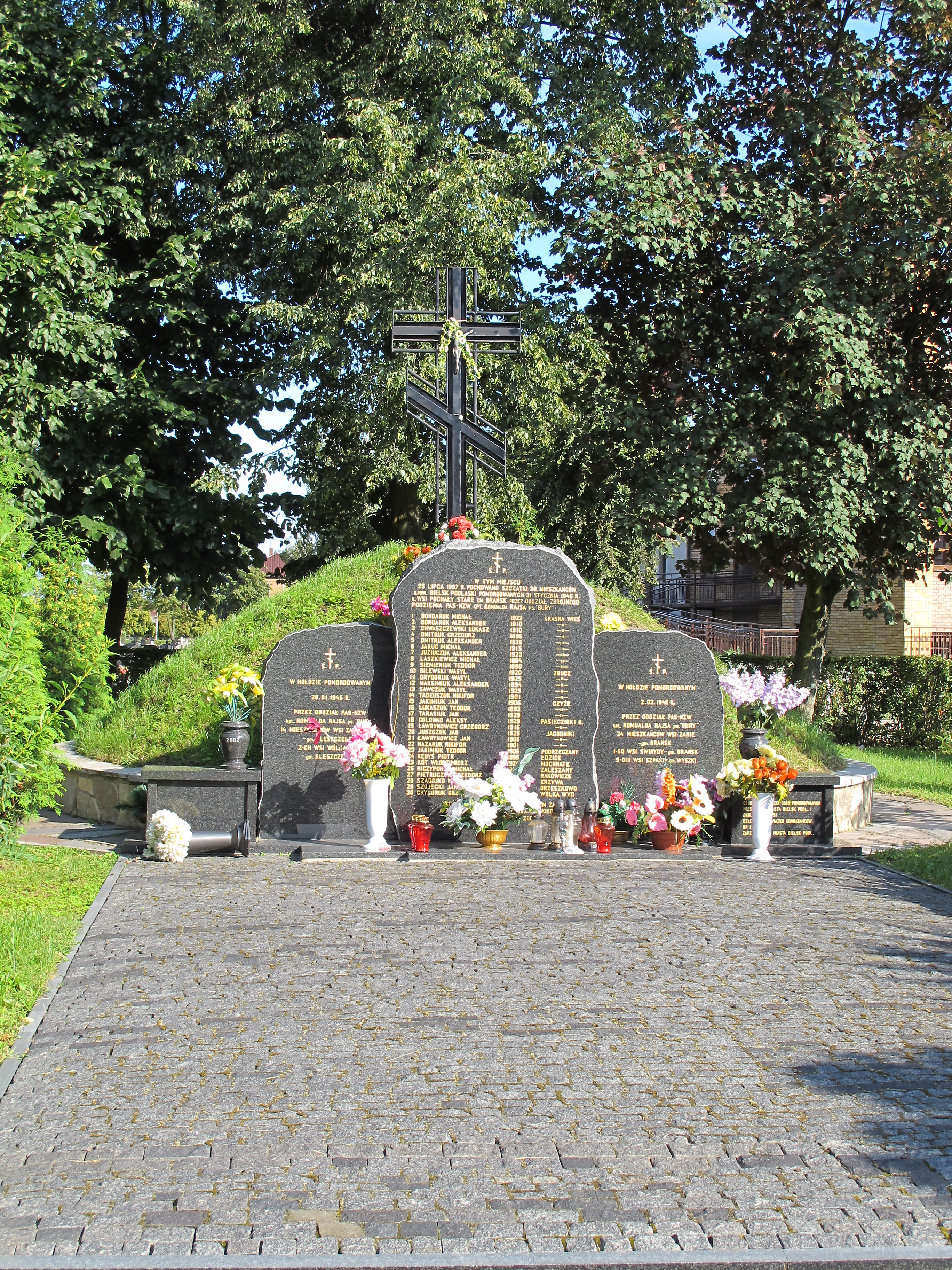 Grave of 30 farmers murdered by NZW's task-force commanded by Romuald Rajs.